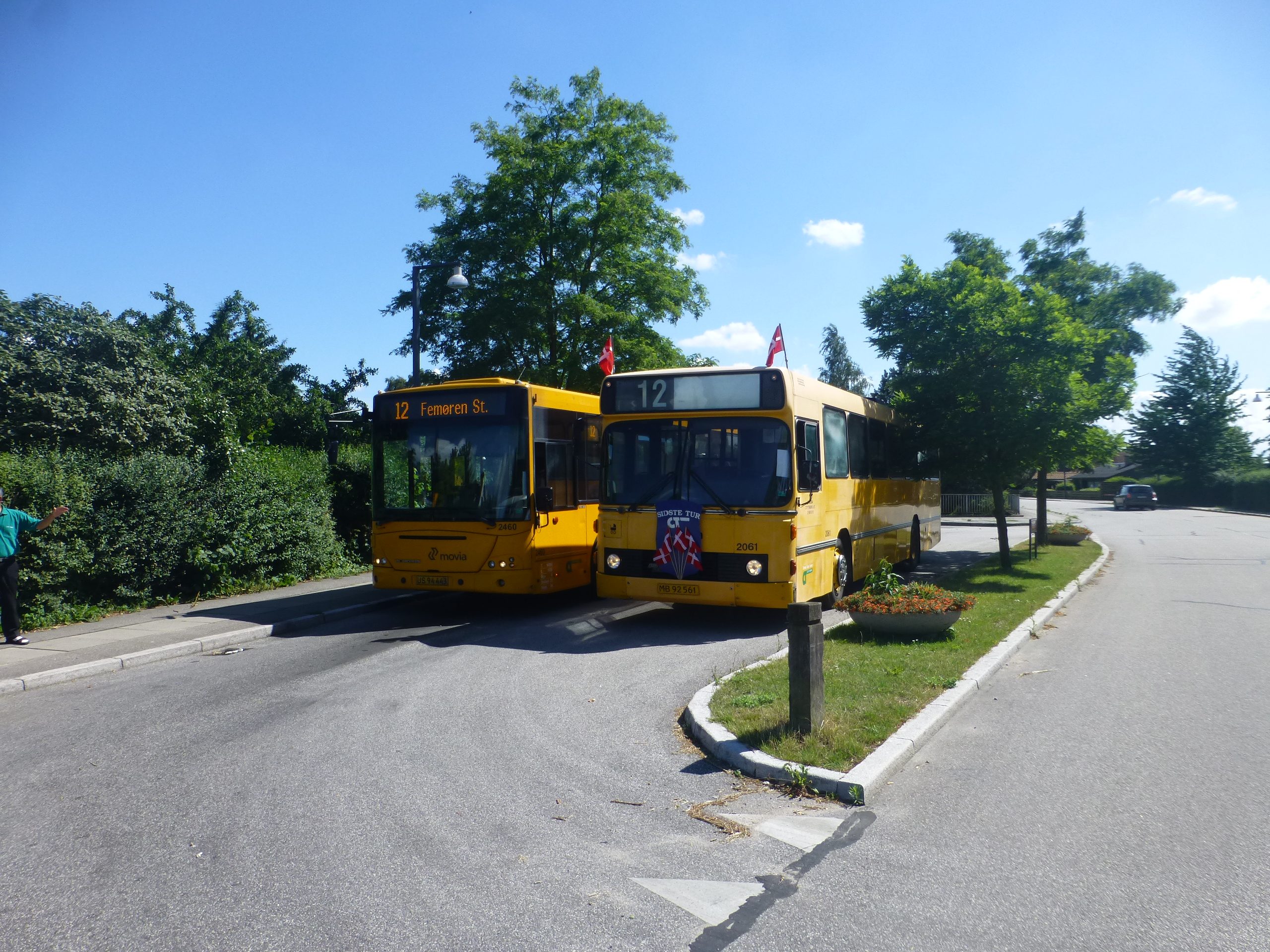 The Danish bus Company City-Trafik was merged with the Danish part of Nettbus into Keolis at July 1, 2014. The day before it was marked with a round on line 12 in Copenhagen by a City-Trafik bus from the beginning of City-Trafik in 1990. Meeting with a bus from 2006 at the endpoint Islev, Viemosevej.